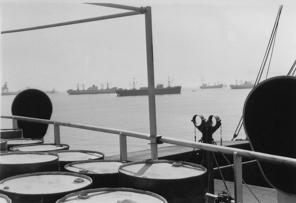 Many ships lie at anchor in front of Hampton Roads, awaiting the loading of coal